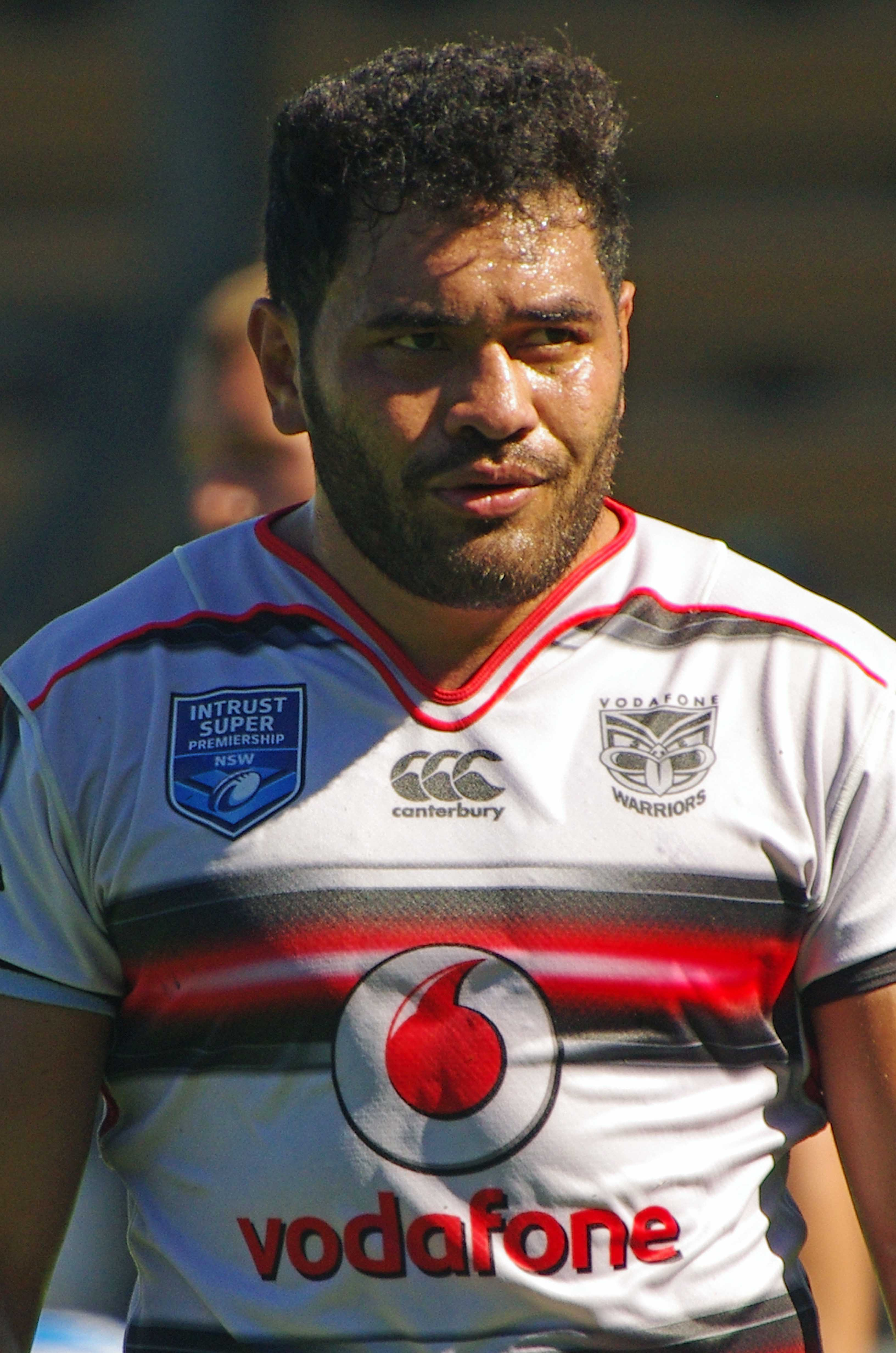 Konrad Hurrell